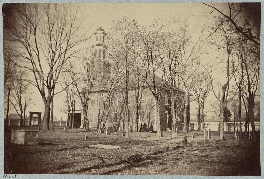 Summary: Photograph shows four women conversing outside the church.